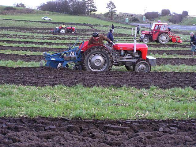 Ploughing match, Garvaghy, looking ENE